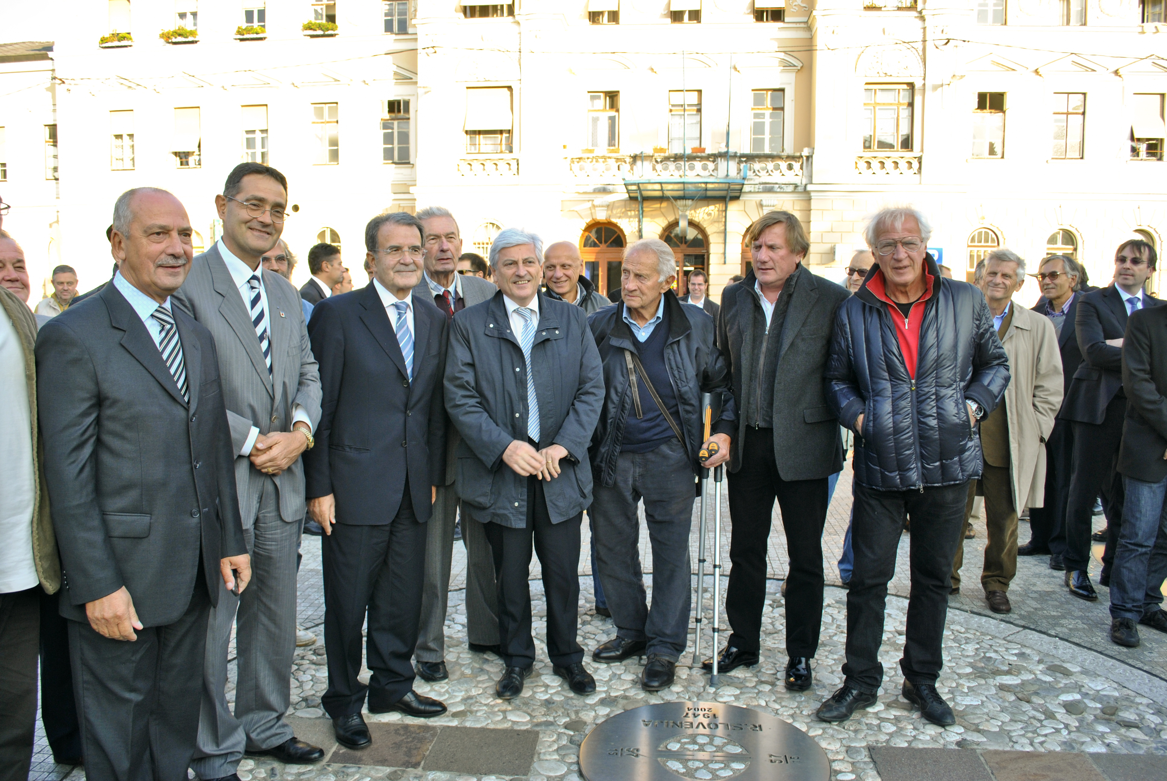 Romano Prodi during the commemoration ceremony of the fall of the border Italy - Slovenia on 2004